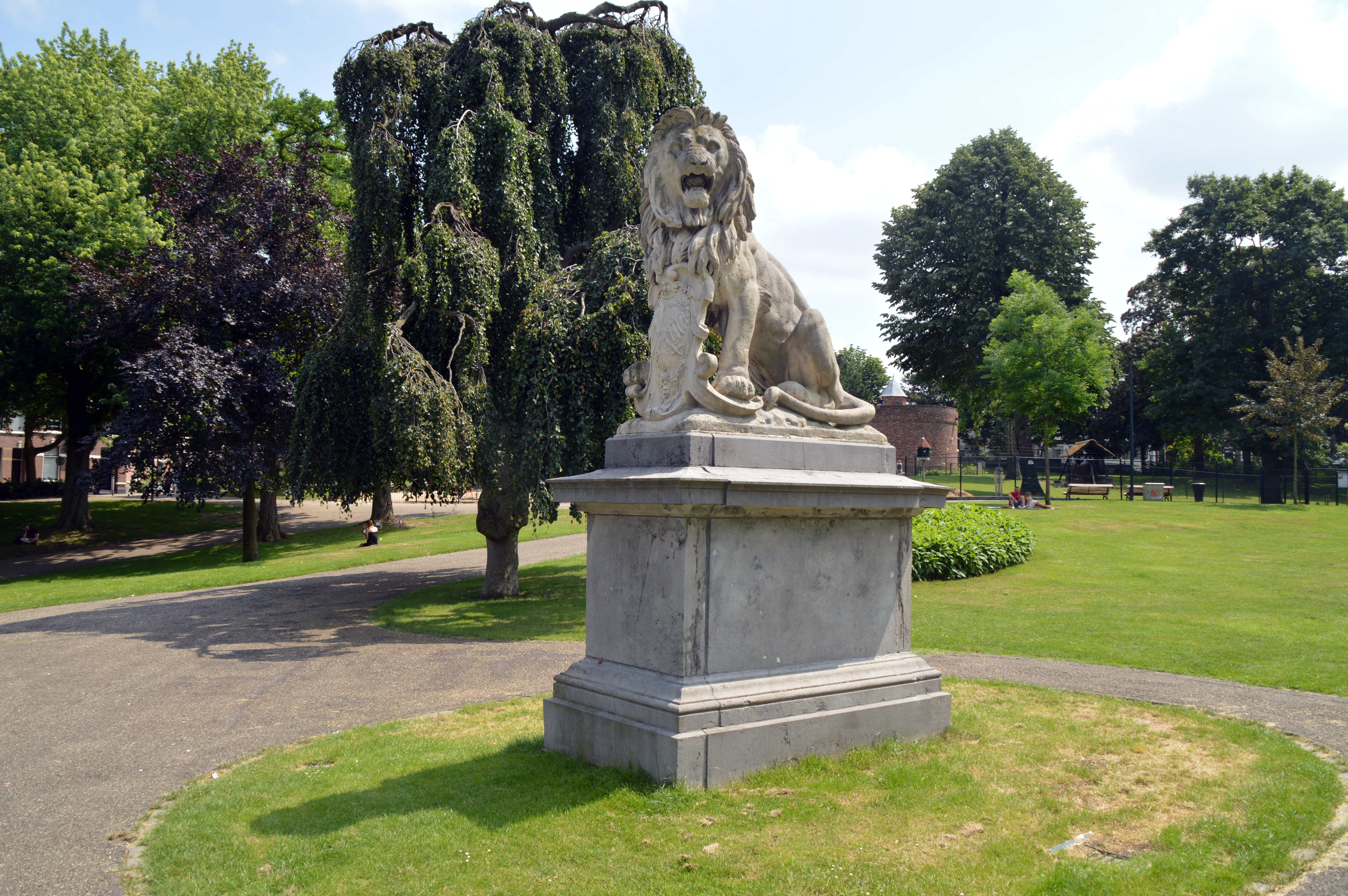 Nijmegen, Leeuw, Kronenburgerpark, Henri Leeuw sr.Henri Leeuw jr. 1886 National monument